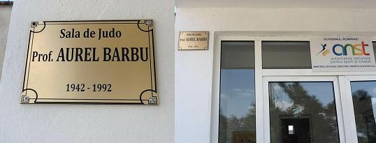 Aurel Barbu Judo Gym, Piteşti, Romania